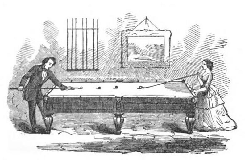 Man playing billiards with cue and woman with mace, from an illustration appearing on page 44 of Michael Phelan's 1859 book, The Game of Billiards (D. Appleton & Company, New York).